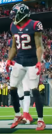 Lonnie Johnson in 2019. Image from video Titans Mic'd Up vs. Texans (Week 17) | Sounds of the Game, ~ 01:25.